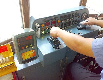 New driving panel of Hong Kong trams